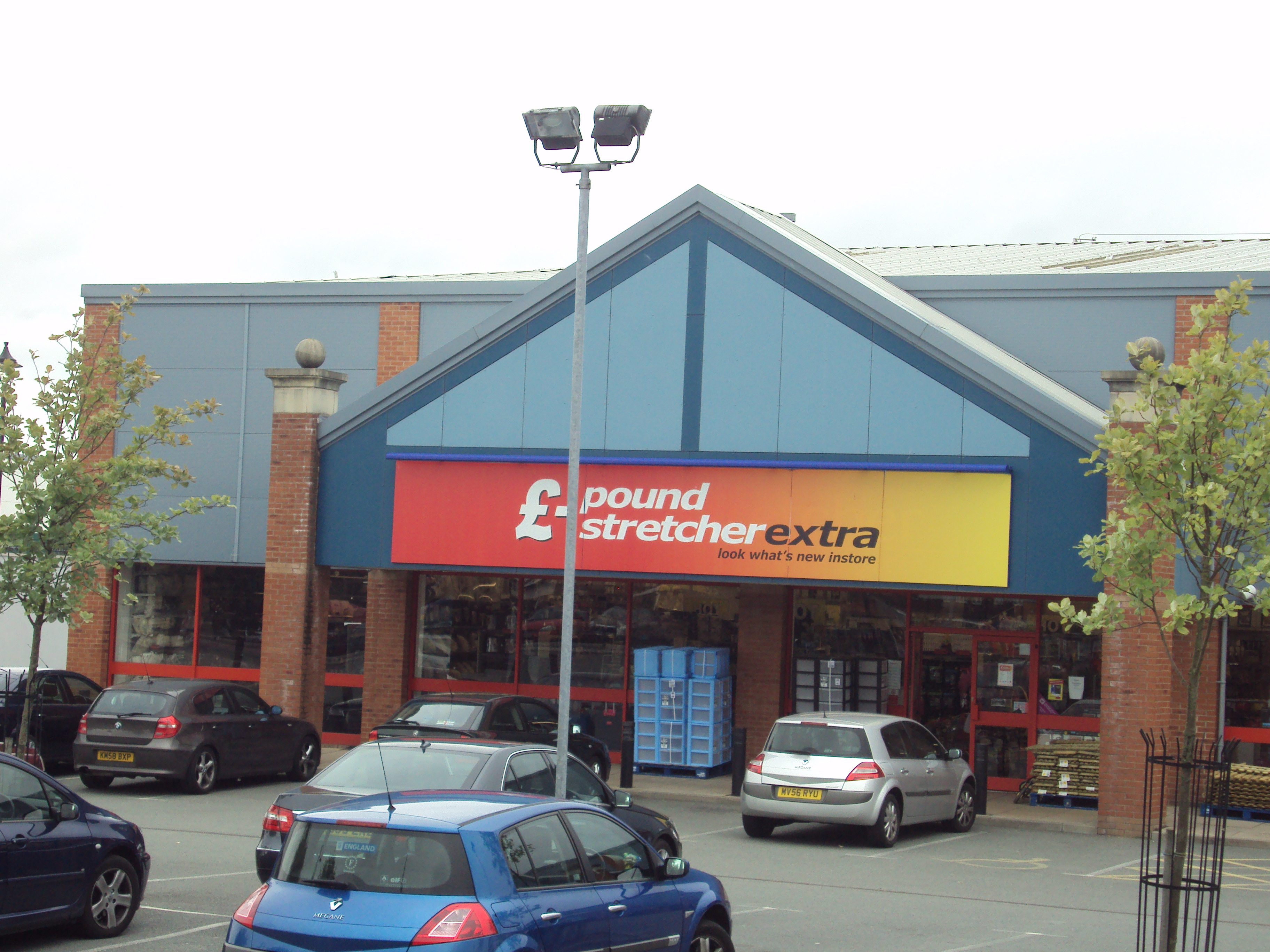 Pound-stretcher store in St Davids Retail Park, High Street, Saltney, Flintshire